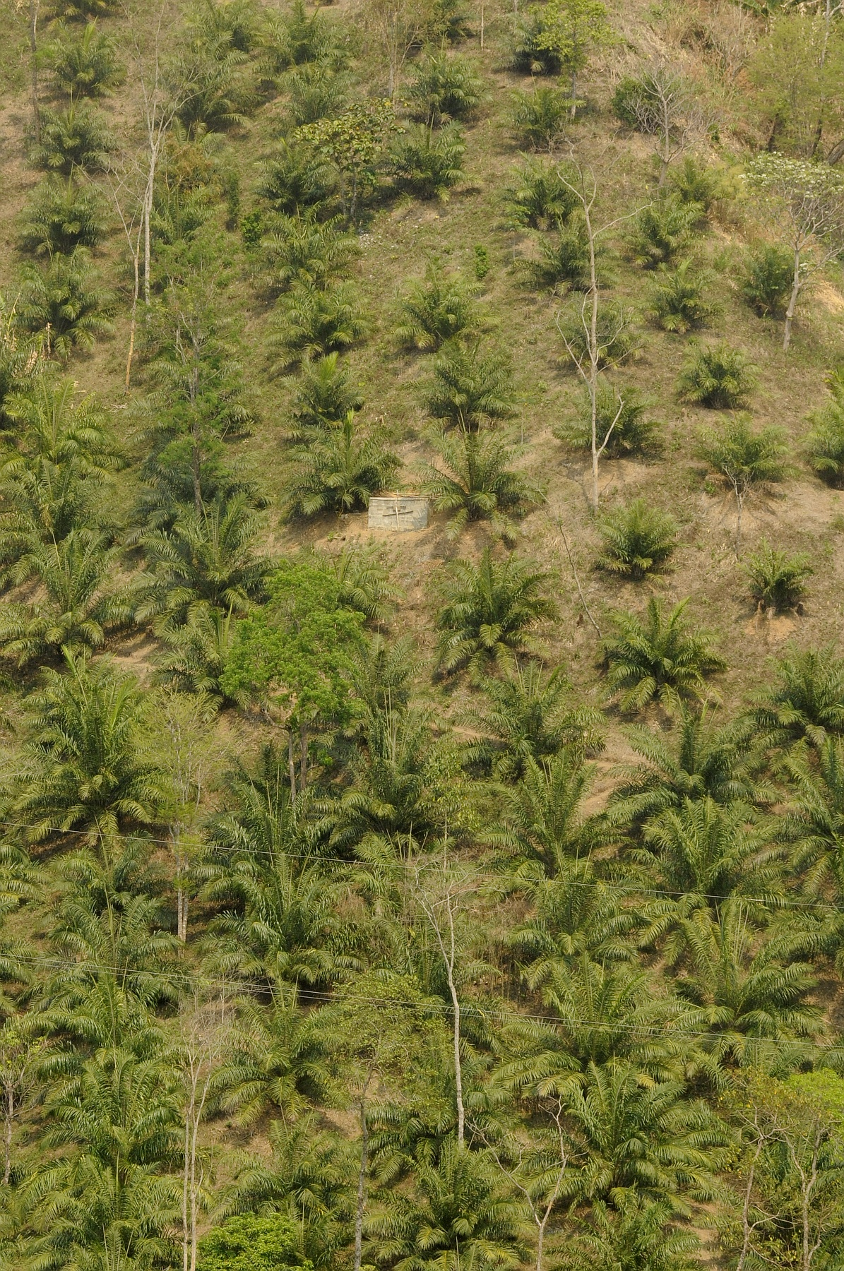 An oil palm plantation on a steep slope in Mamit District, Mizoram, India